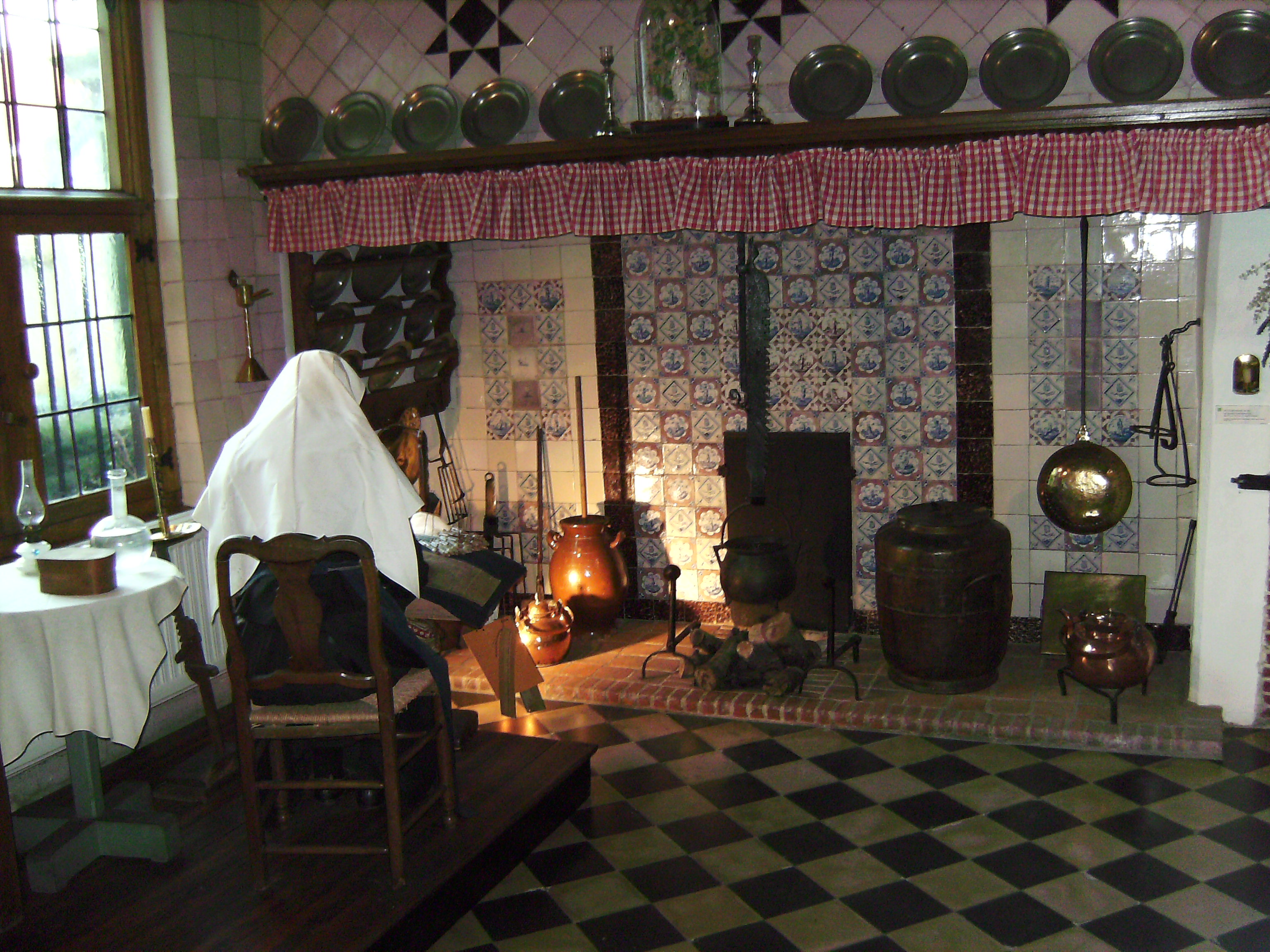 In the museum of Béguinage of Turnhout, Belgium.